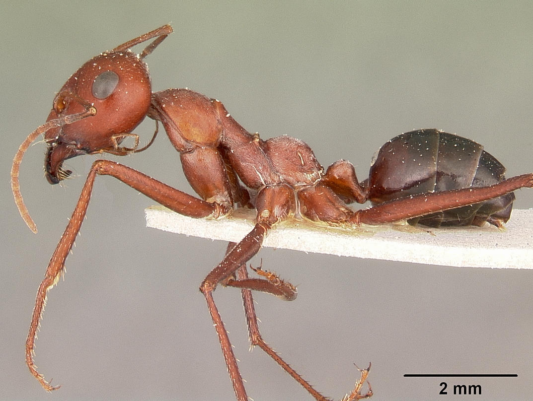 Profile view of ant Cataglyphis bicolor specimen casent0104612.